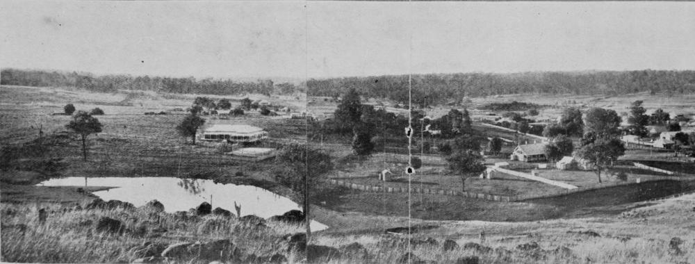 Panoramic view of Eidsvold showing a dam in the foreground, 1931